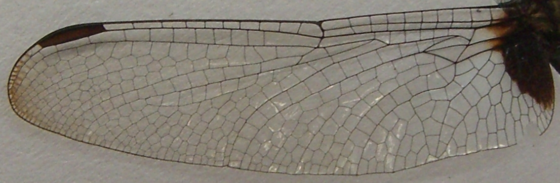 Description: Detail of the hindwing of Erythrodiplax kimminsi, (male)